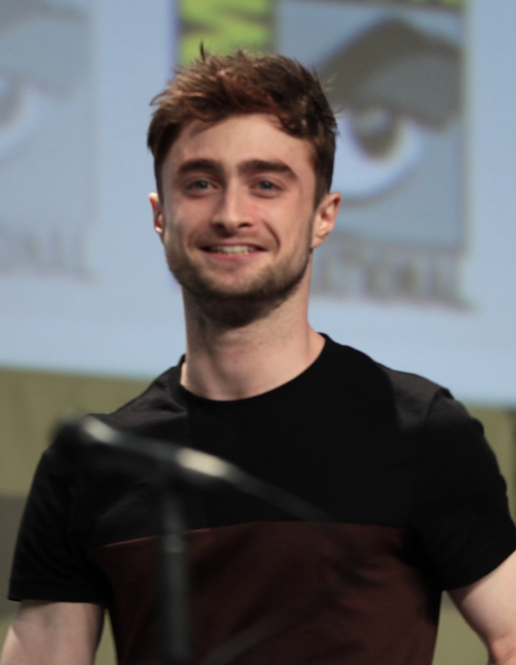 Daniel Radcliffe speaking at the 2014 San Diego Comic Con International, for "Horns", at the San Diego Convention Center in San Diego, California.